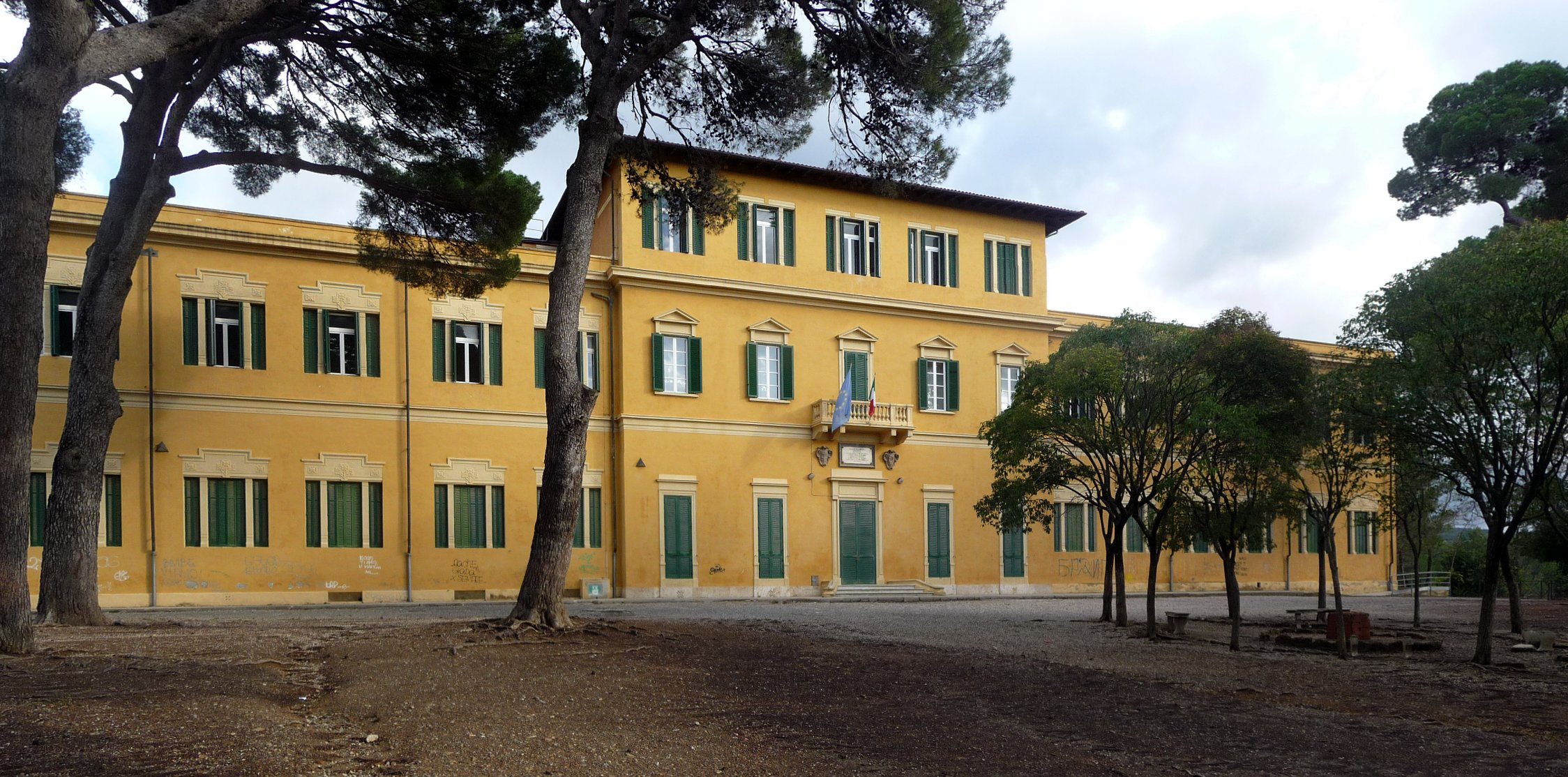 Villa Corridi, Livorno, Italy